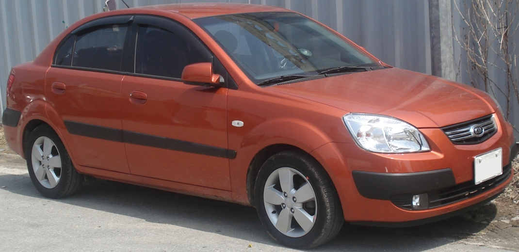 Kia New Pride